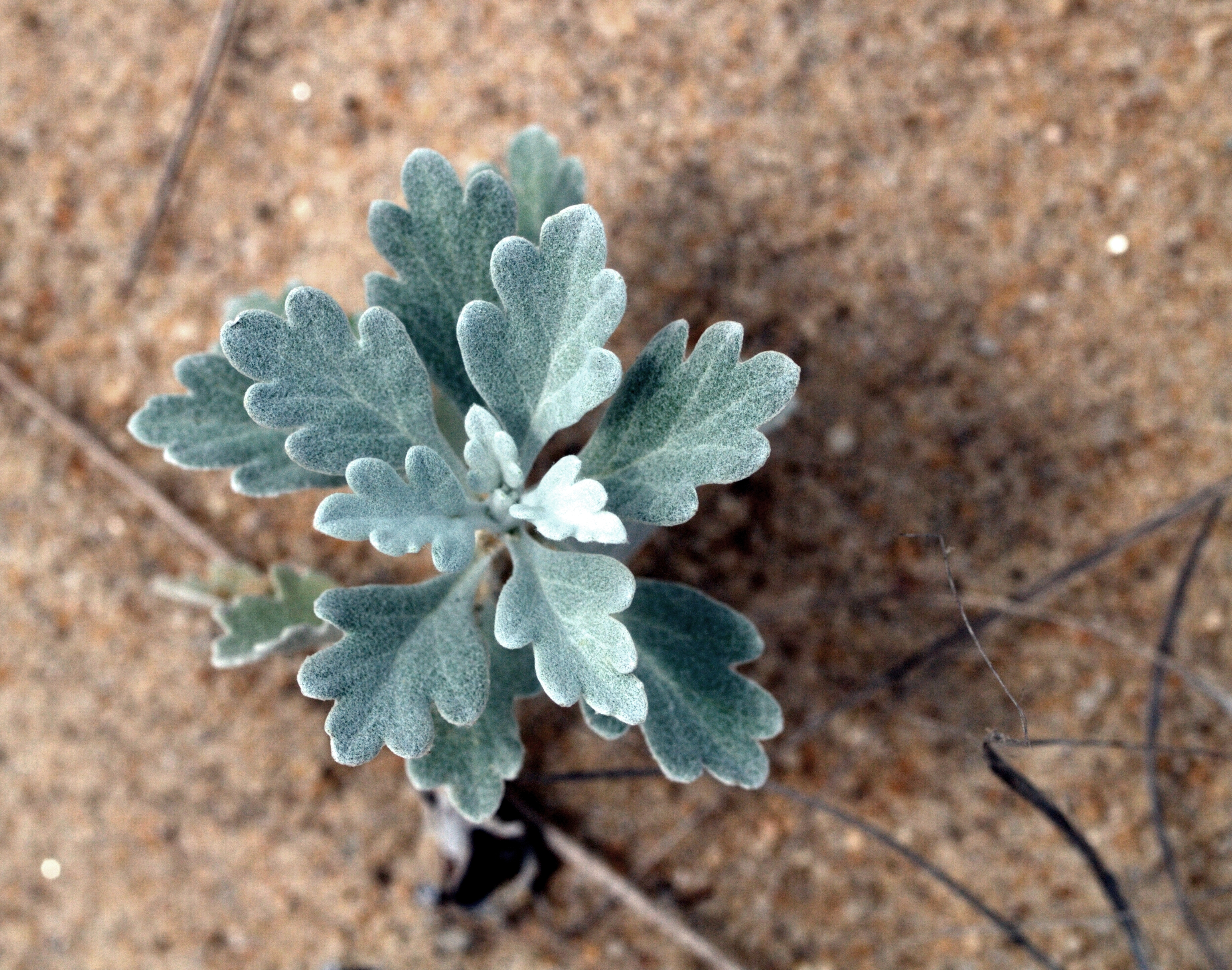 Artemisia stelleriana on the dunes at the Cape Cod National Seashore (Wellfleet, MA)